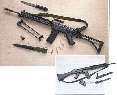 I took this